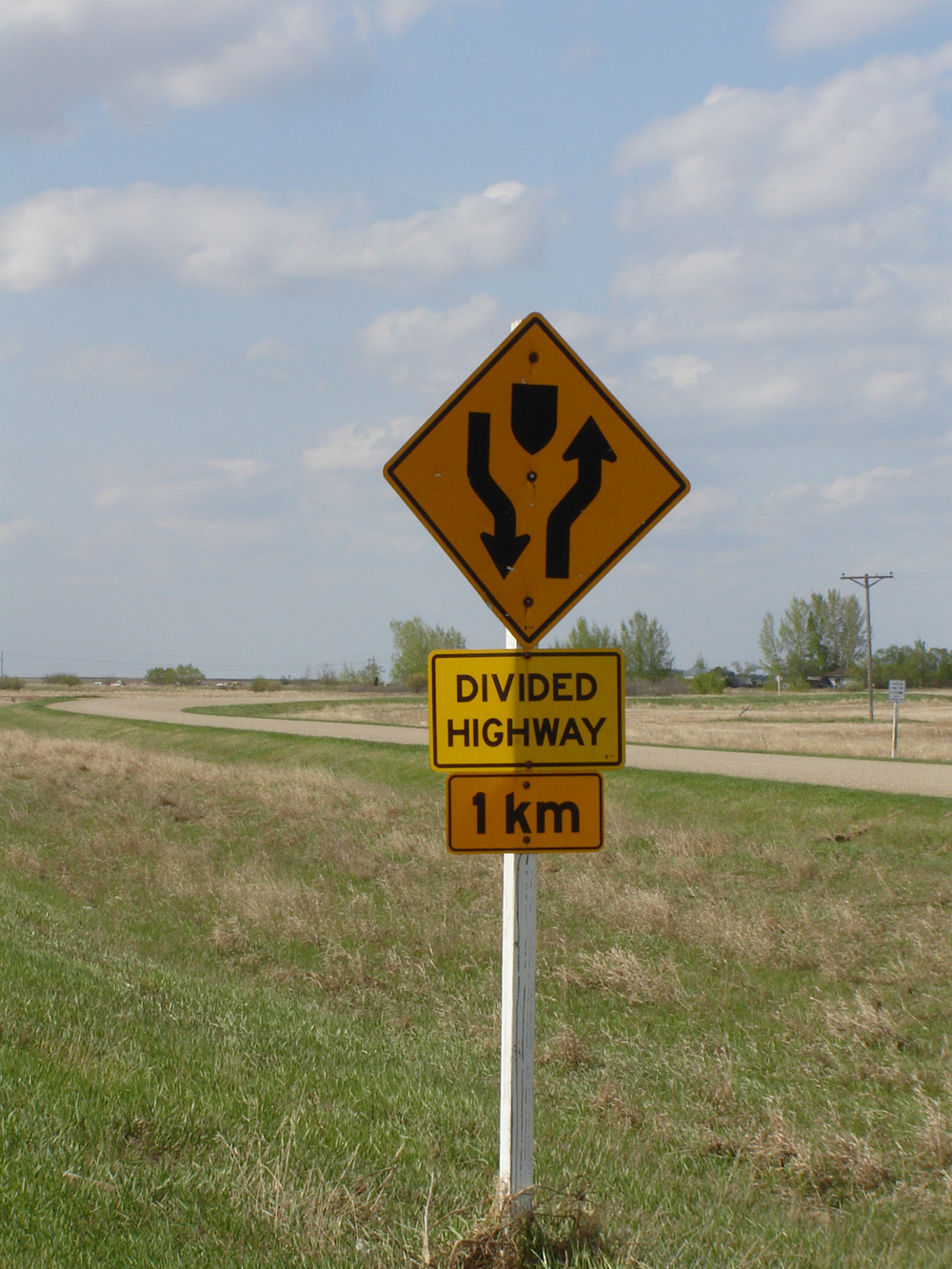 Saskatchewan Highway 16 or Yellowhead Highway Divided Highway Signage